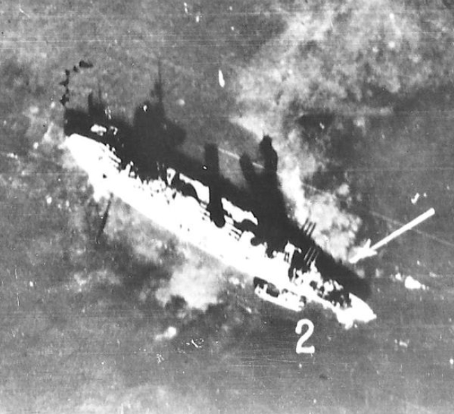 Luftwaffe aerial photograph of the damaged Soviet battleship Oktyabrskaya Revolutsiya in Kronstadt